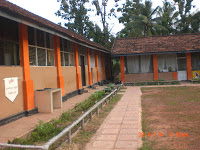 තිබ්බොටුගොඩ,ගාමිණී කණිෂ්ඪ විද්‍යාලය